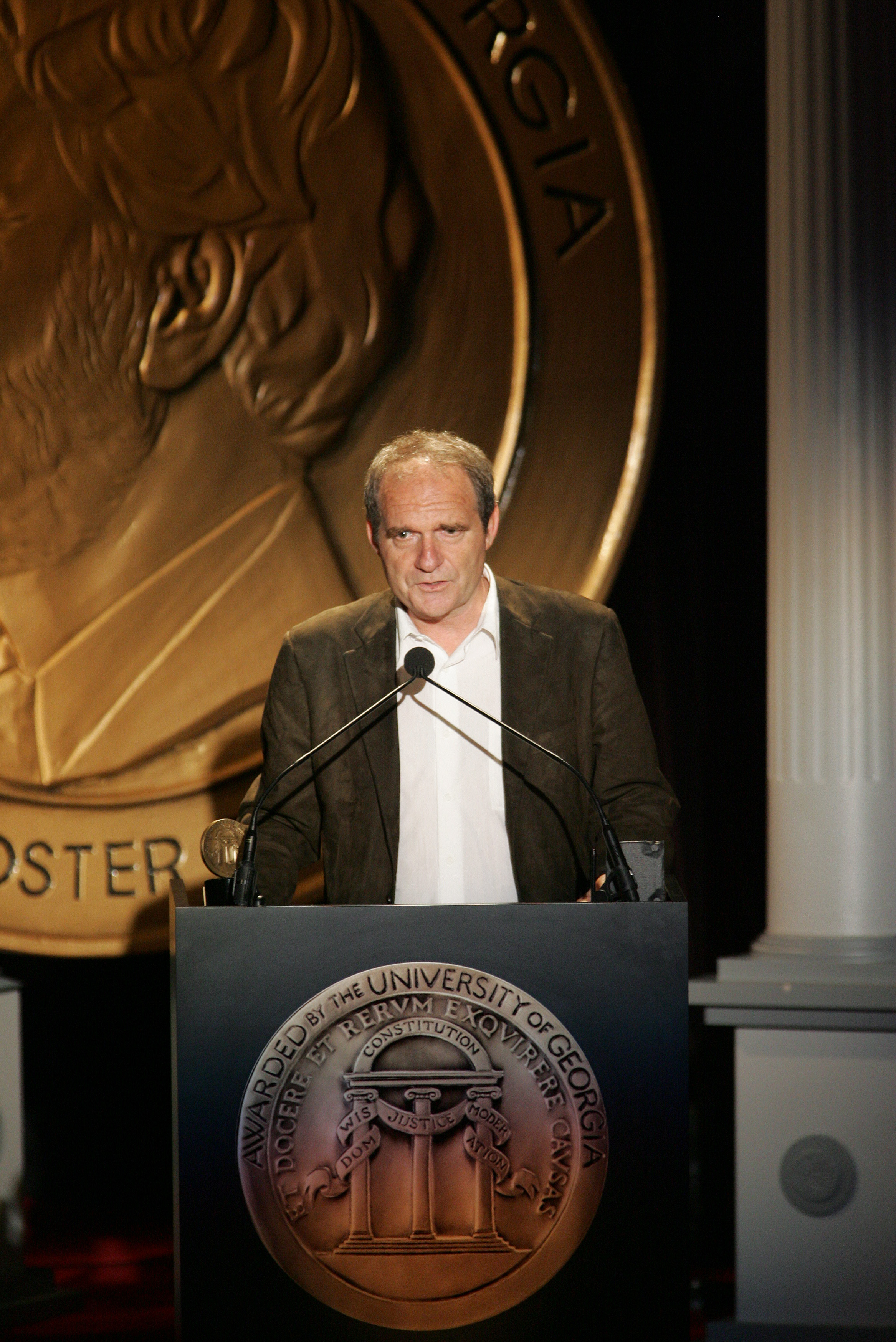 64th Annual Peabody Awards Luncheon Waldorf=Astoria Hotel New York, NY USA May 16, 2005